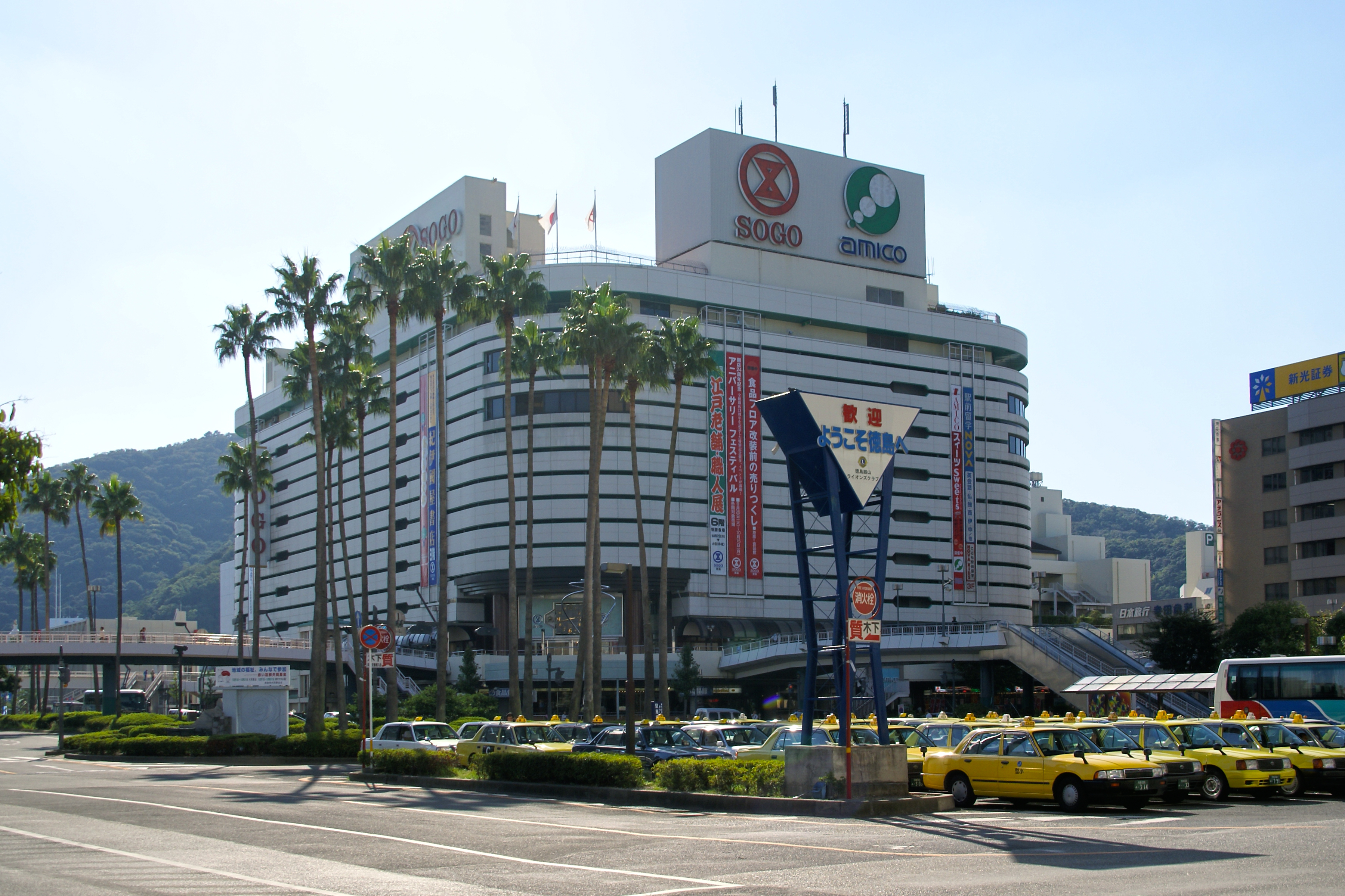 Sogo department store in Tokushima, Tokushima prefecture, Japan